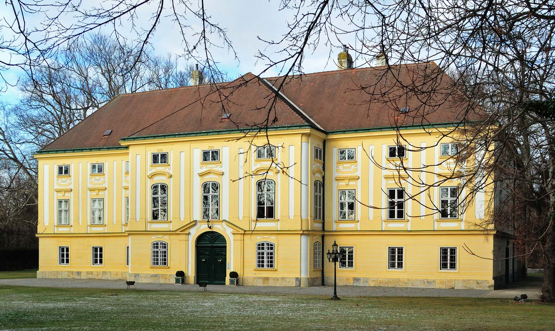 Palace in Margarethen am Moos, Municipality Enzersdorf an der Fischa, Lower Austria, Austria